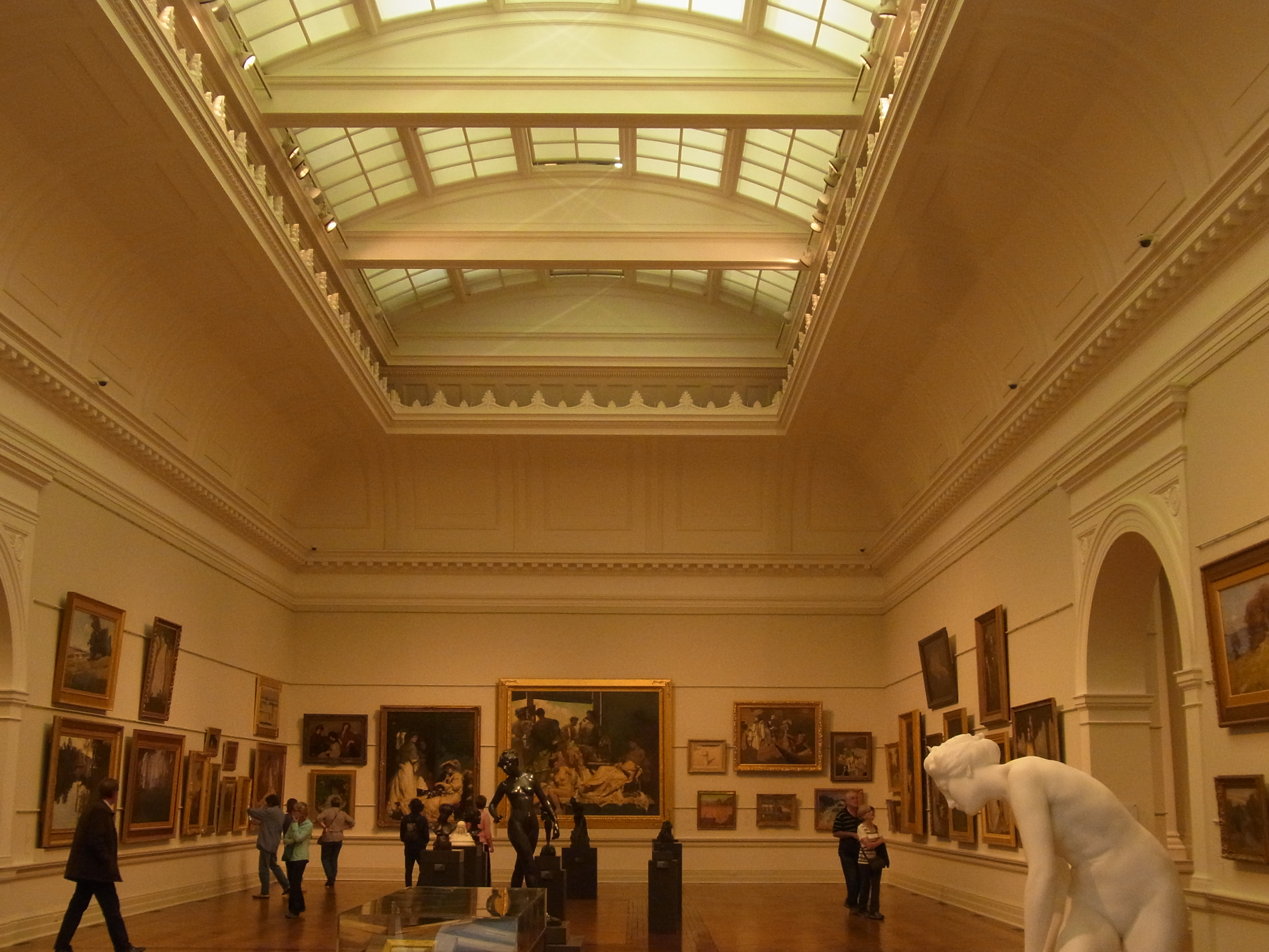 Art Gallery of NSW Sydney, central court of Vernon Building c.1900